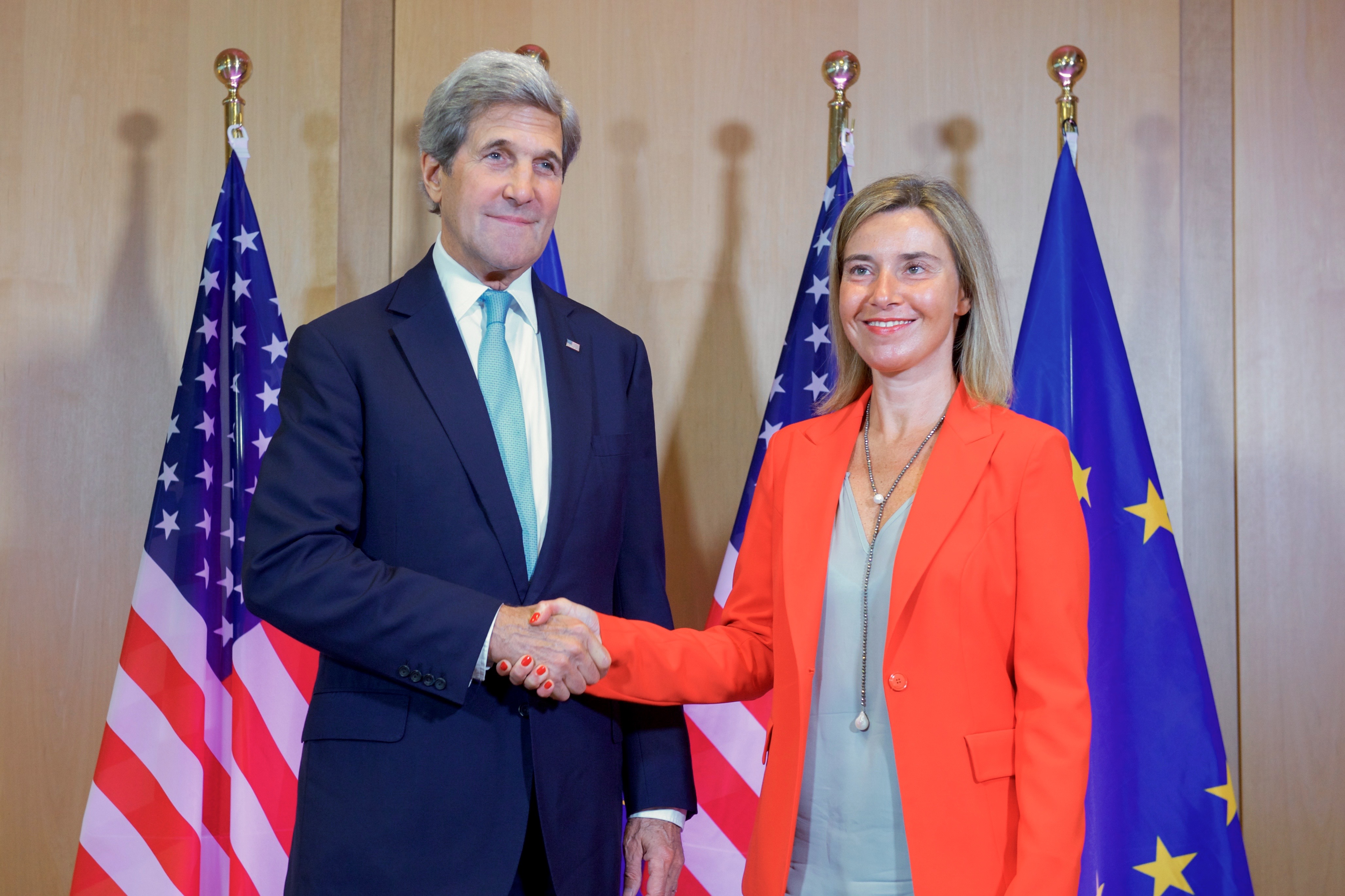 U.S. Secretary of State John Kerry shakes hands with European Union High Representative for Foreign Affairs Federica Mogherini on July 18, 2016, at Justus Lipsius Building in Brussels, Belgium, before attending a breakfast meeting with members of the E.U. Foreign Affairs Council. [State Department photo/ Public Domain]